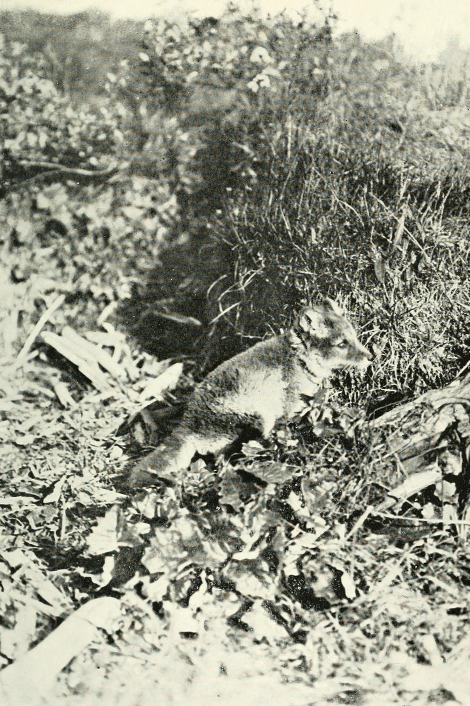 Blue Fox